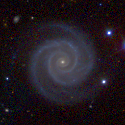 Image of NGC 2857 (Arp 1)